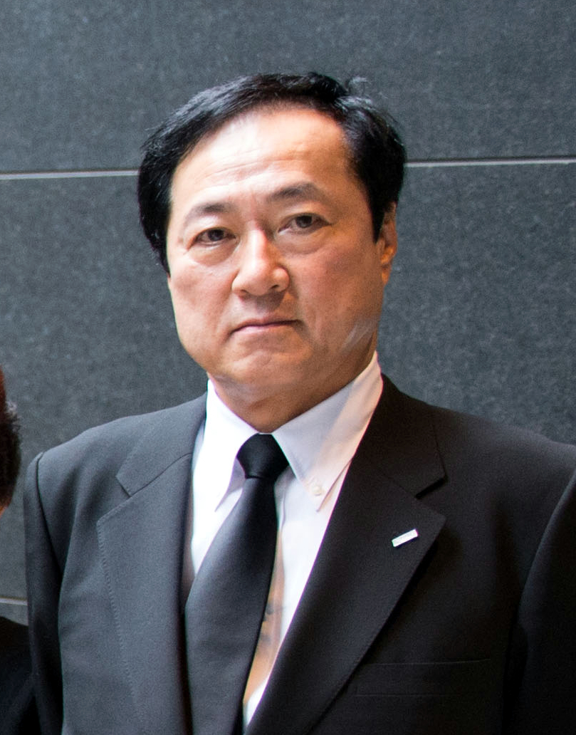 Caroline Kennedy, Ambassador to Japan, met Yasuhiro Satō, President of the Mizuho Financial Group, Inc., and family members of the victims of the September 11 attacks in front of the memorial at the Ōtemachi no Mori, Otemachi Tower in Chiyoda Ward, Tōkyō Metropolis on September 10, 2014. The victims were working in the offices of the Fuji Bank at the World Trade Center in New York City, New York State.